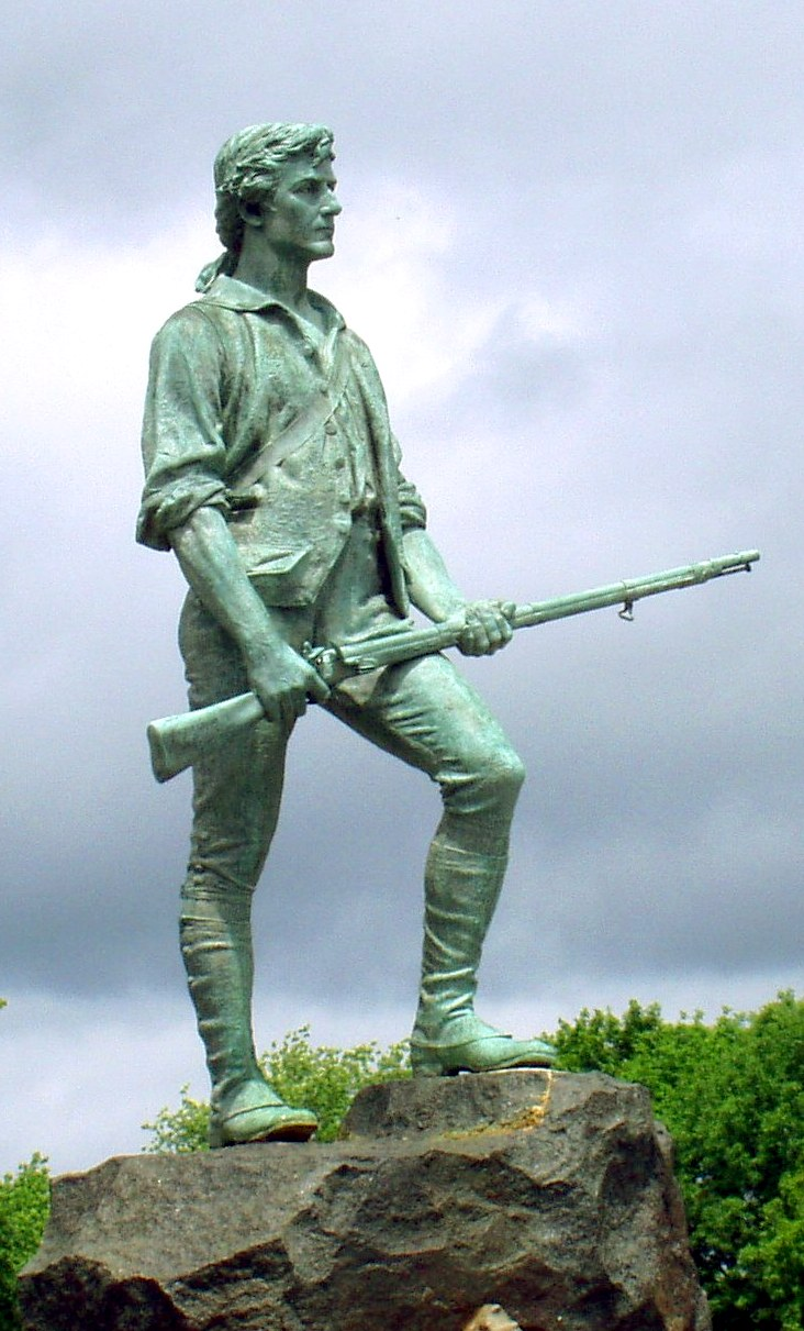 This is a photograph of the statue representing Captain John Parker sculpted by Henry Hudson Kitson and erected in 1900. This statue in Lexington, Massachusetts is commonly called "The Lexington Minuteman." It is often confused with the Daniel Chester French statue The Minute Man in nearby Concord